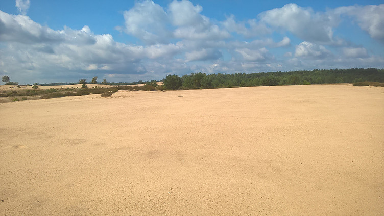 Desert Kozlowska in Poland, Voiwodeship Lower Silesia